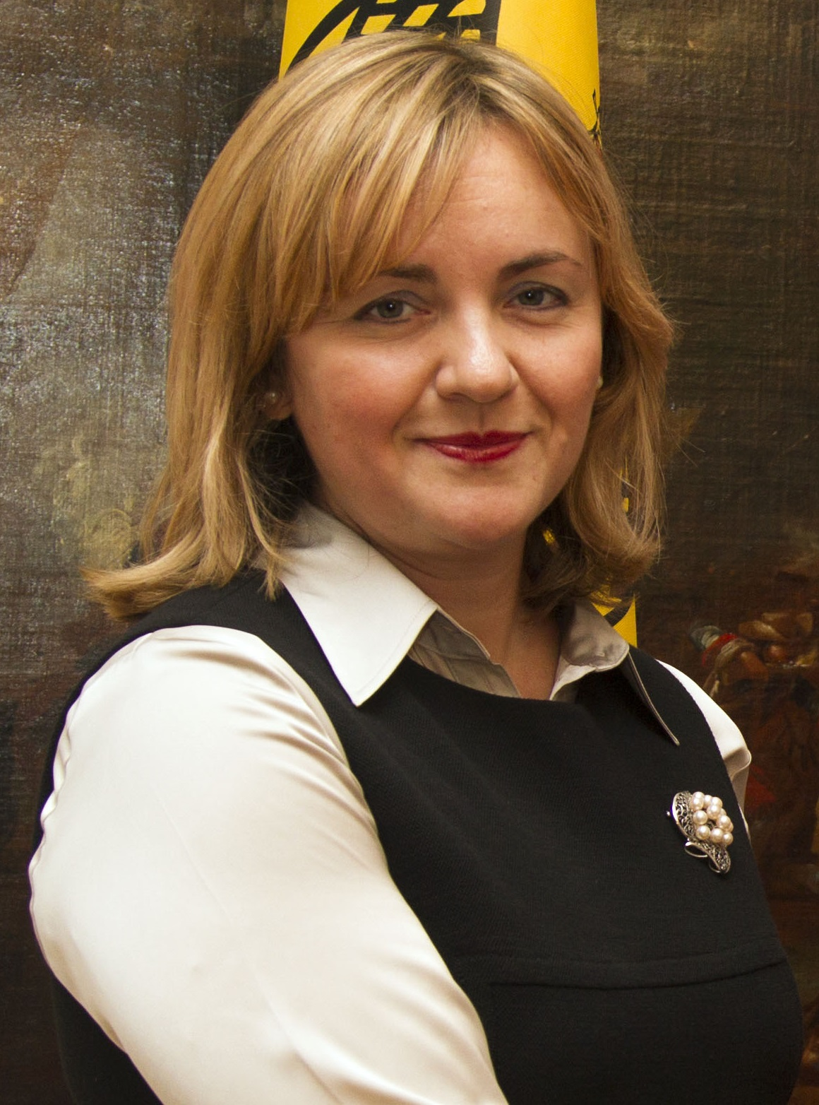 Natalia Gherman